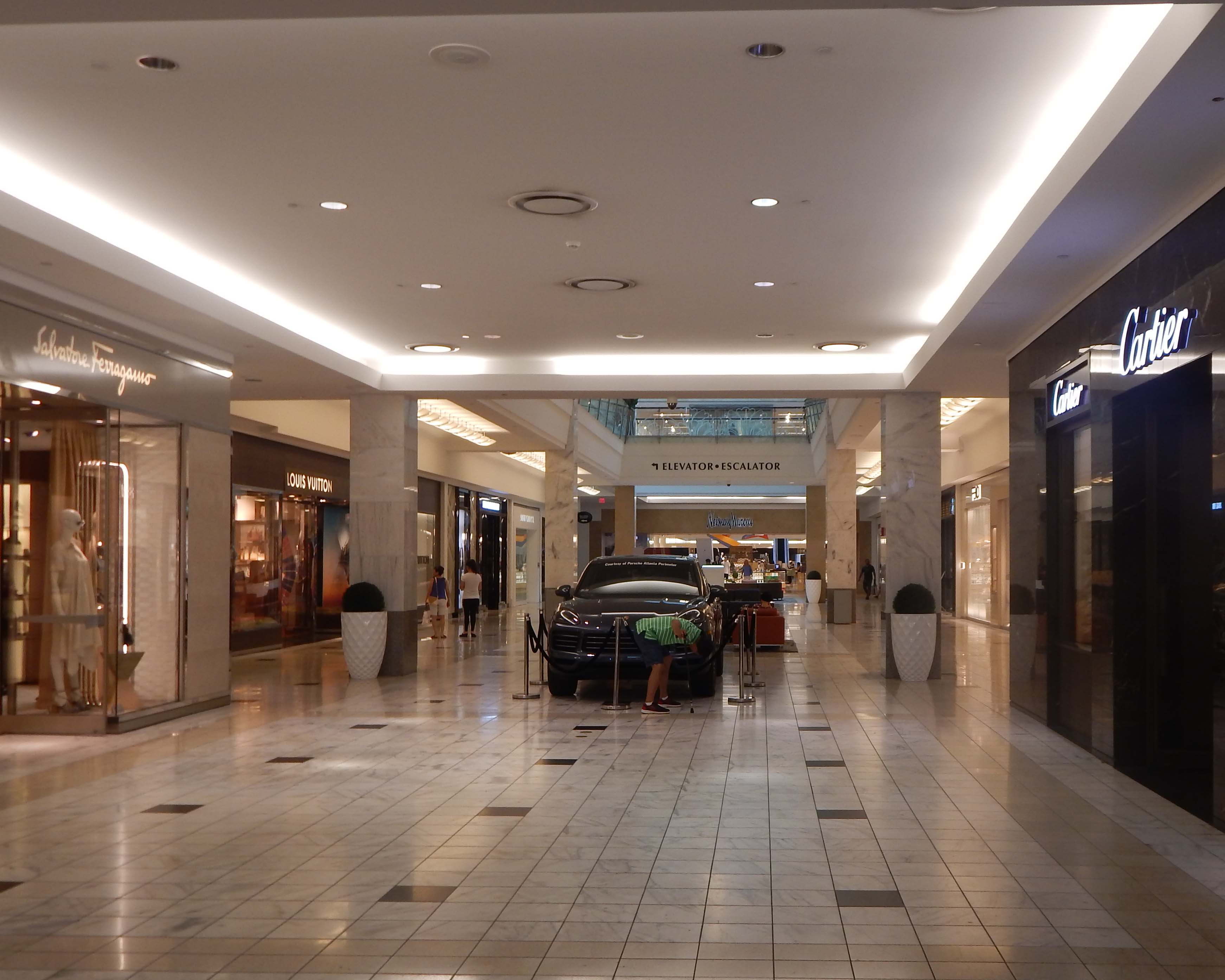 The Neiman Marcus wing has several upscale stores not found within hundreds of miles from Atlanta such as Louis Vuitton, Cartier, Burberry, and David Yurman